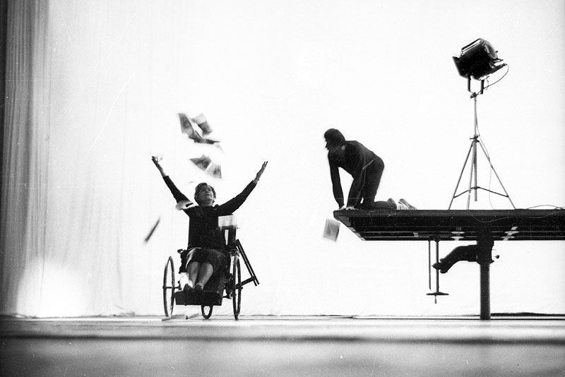 Ratastoolis Herta Elviste (Perenaine), poodiumil Raivo Adlas (Prints).